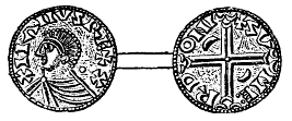 Mint coined in Lund for Magnus I of Norway, as depicted in Nordisk familjebok, Owl Edition.